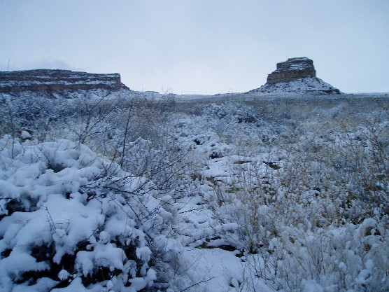 An image of Fajada Butte, Chaco Canyon (New Mexico, United States) in winter.